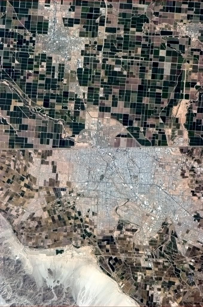 “Same land, different politics. The US–Mexican border, seen from space.” Caption by astronaut Chris Hadfield aboard the International Space Station. Visible is the Calexico–Mexicali metropolitan area and the city of El Centro to the north.